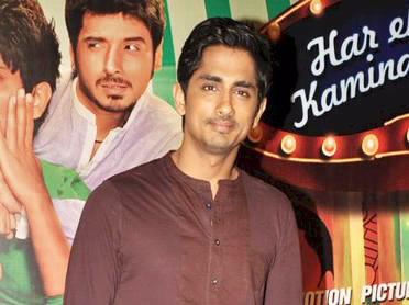 Siddharth Narayan at the Audio release of 'Chashme Baddoor'